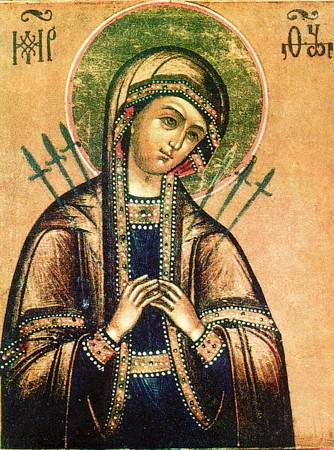 Our Lady Umyagchenie zlih serdets (Softening the evil hearts). Russia.